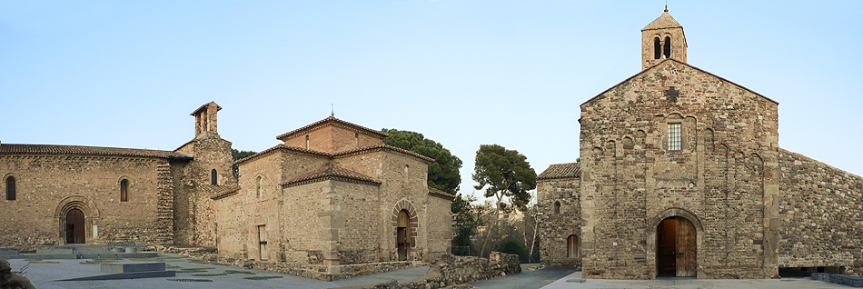 Ancient Visigothic-Romanesque churches of Egara, in Terrassa (Principality of Catalonia, Kingdom of Spain).